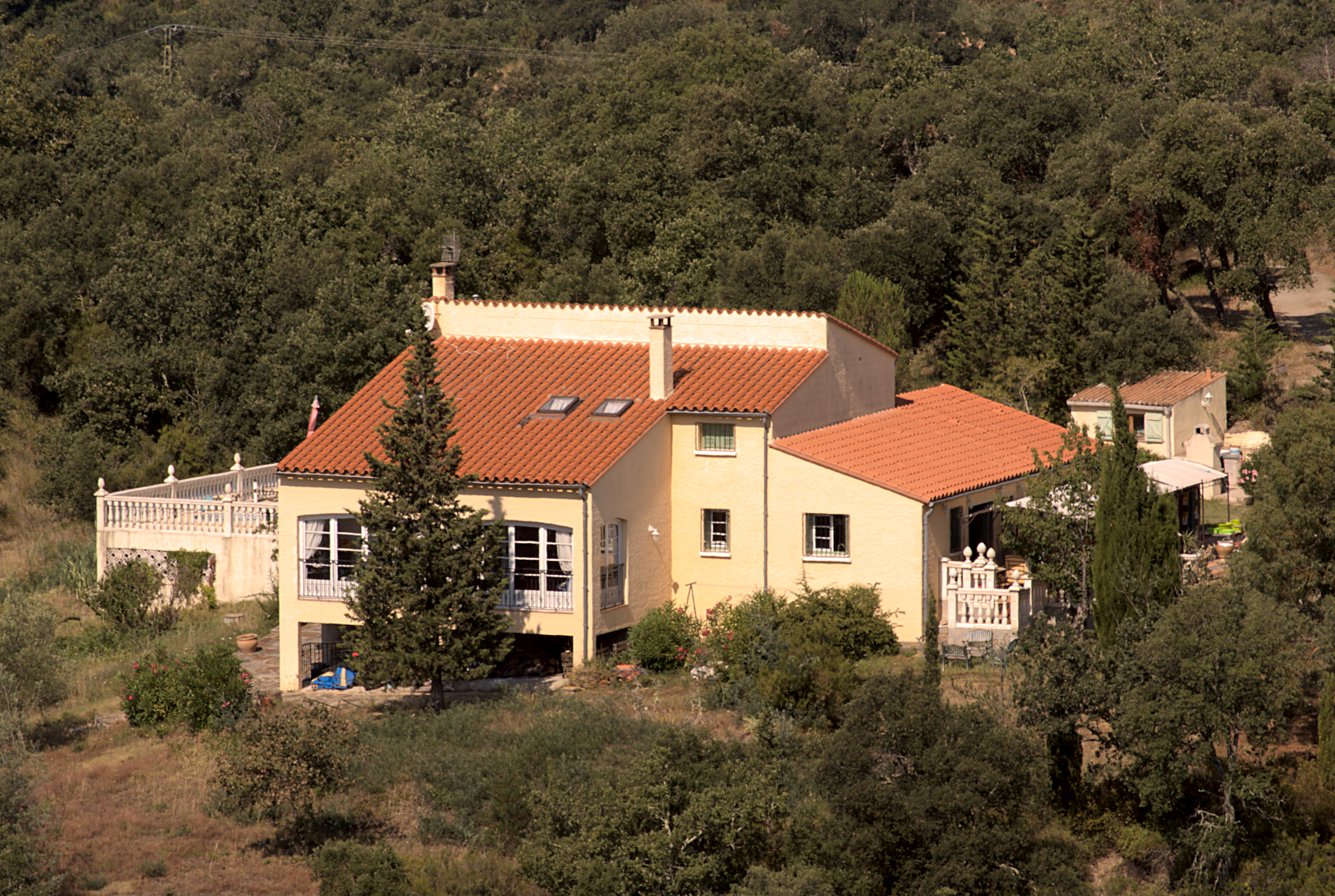 Luminance HDR 2.3.0 tonemapping parameters: Operator: Mantiuk08 Parameters: Luminance Level: Auto Color Saturation: 1 Contrast Enhancement: 1 PreGamma: 0.91